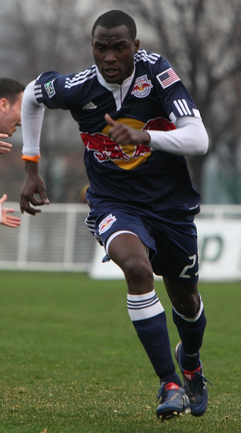 Tony Tchani of the New York Red Bulls in March 2010.